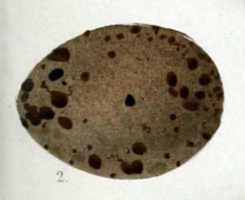 « Rhynchops flavirostris » = Rynchops flavirostris (African skimmer) - egg